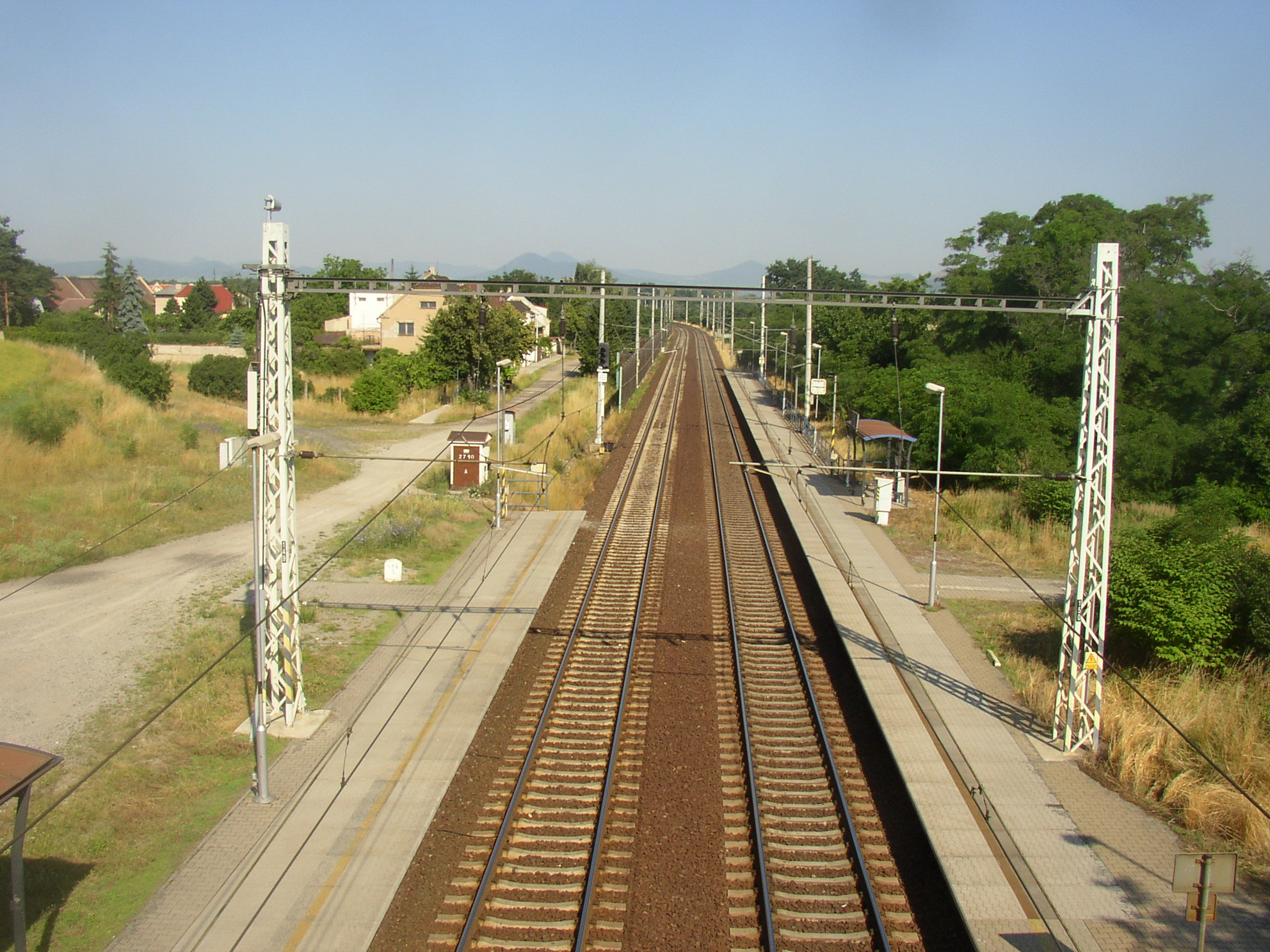 Hrdly railway station on backbone 090 line from Prague to Děčín. A view towards the northwest from bridge of Doksany - Terezín road, trains bound for Děčín use the platform in the right, trains bound for Prague the platform in the left. Village of Hrdly is visible in the left bakground.